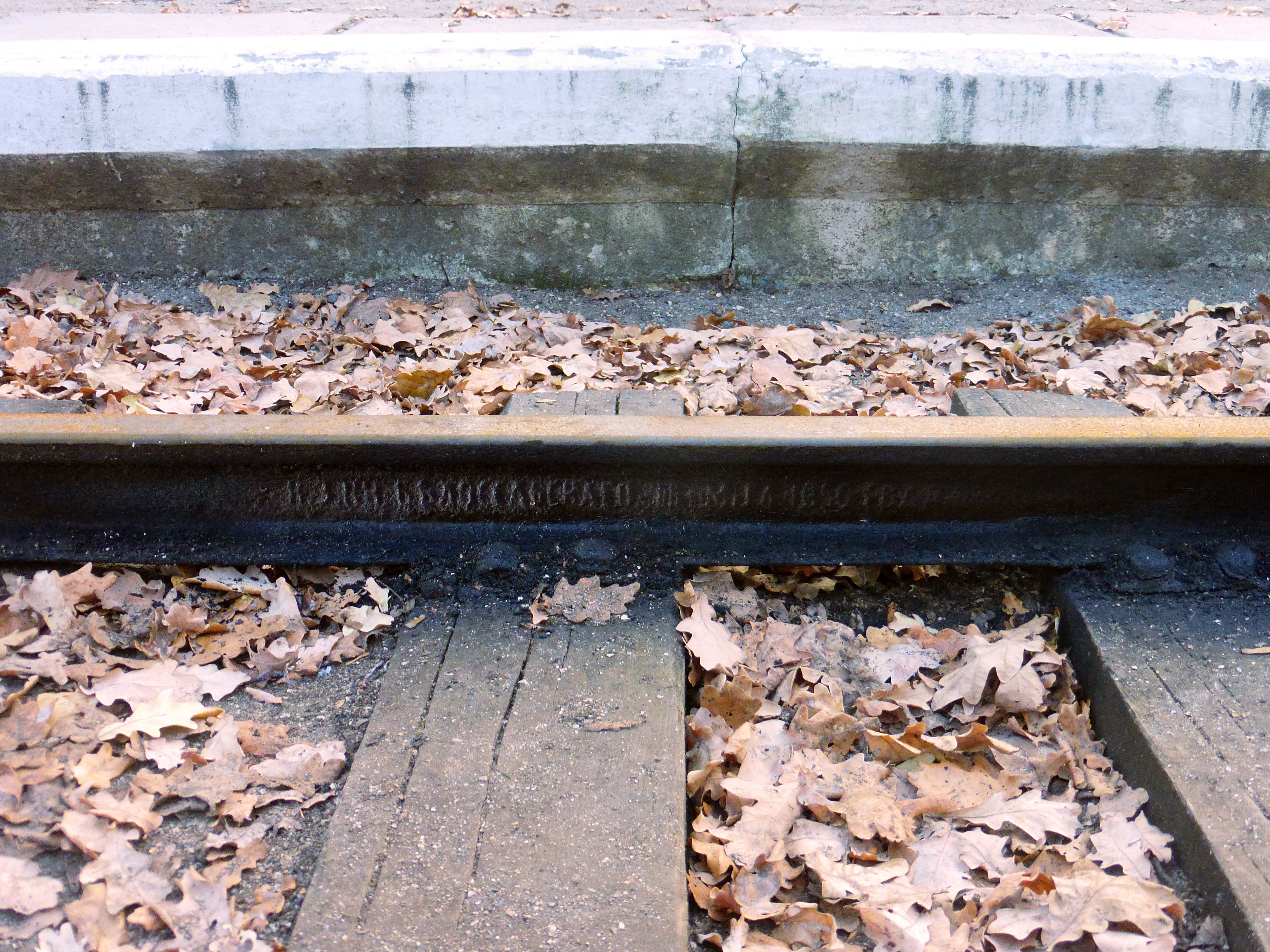 Rail having roll mark 'К.З. КН. БѢЛОСЄЛЬСКАГО IIII МЏА 1880 ГОДА' (St.F. Pr. Beloselky IIII 1880) on Kharkov Children Railway 'Lesopark' station, November 2018